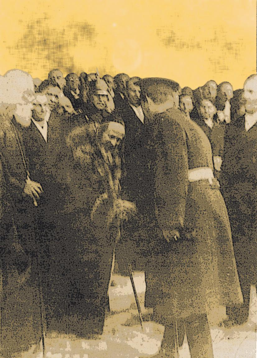 Rabbi Joel Teitelbaum (bowing) greeting King Carol II of Romania (back to camera) during his visit to Satu Mare in 1936.